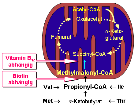 Autor: PD Dr. med. habil. Stephan Gromer Shown is a simplified sketch of the Vitamin B12 and Biotin dependend steps in the metabolism of the carbon skeleton of several amino acids and fatty acids with an uneven number of C-atoms